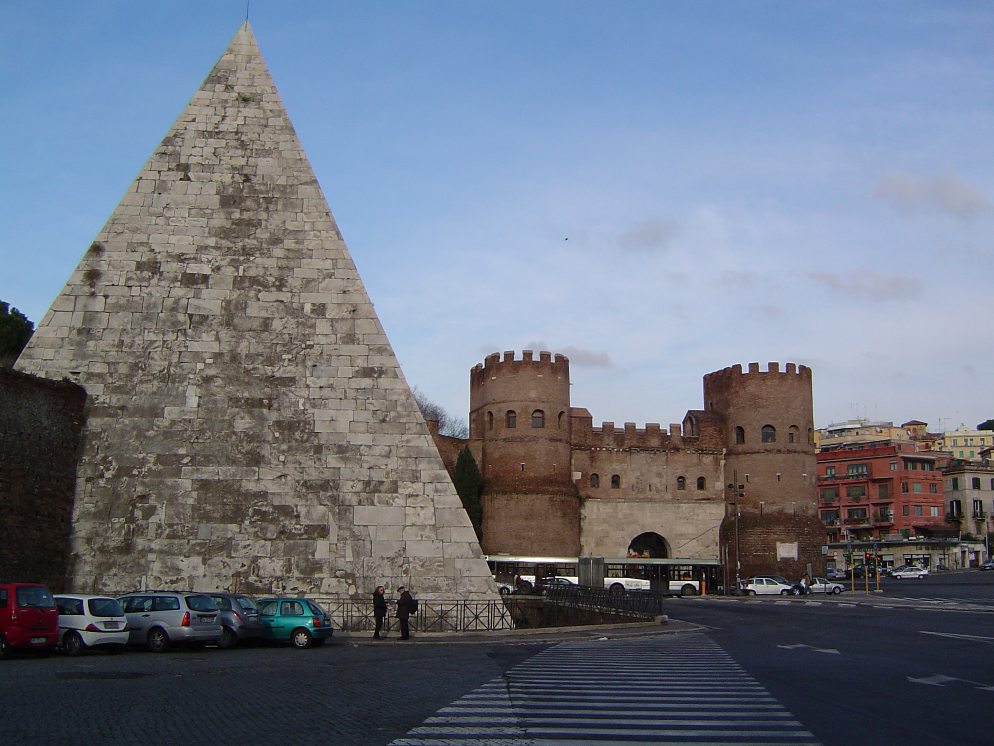 Porta San Paolo (Rome) & Pyramid of Cestius. Rome, Italy. Made by Joris van Rooden, The Netherlands on 03-01-2006